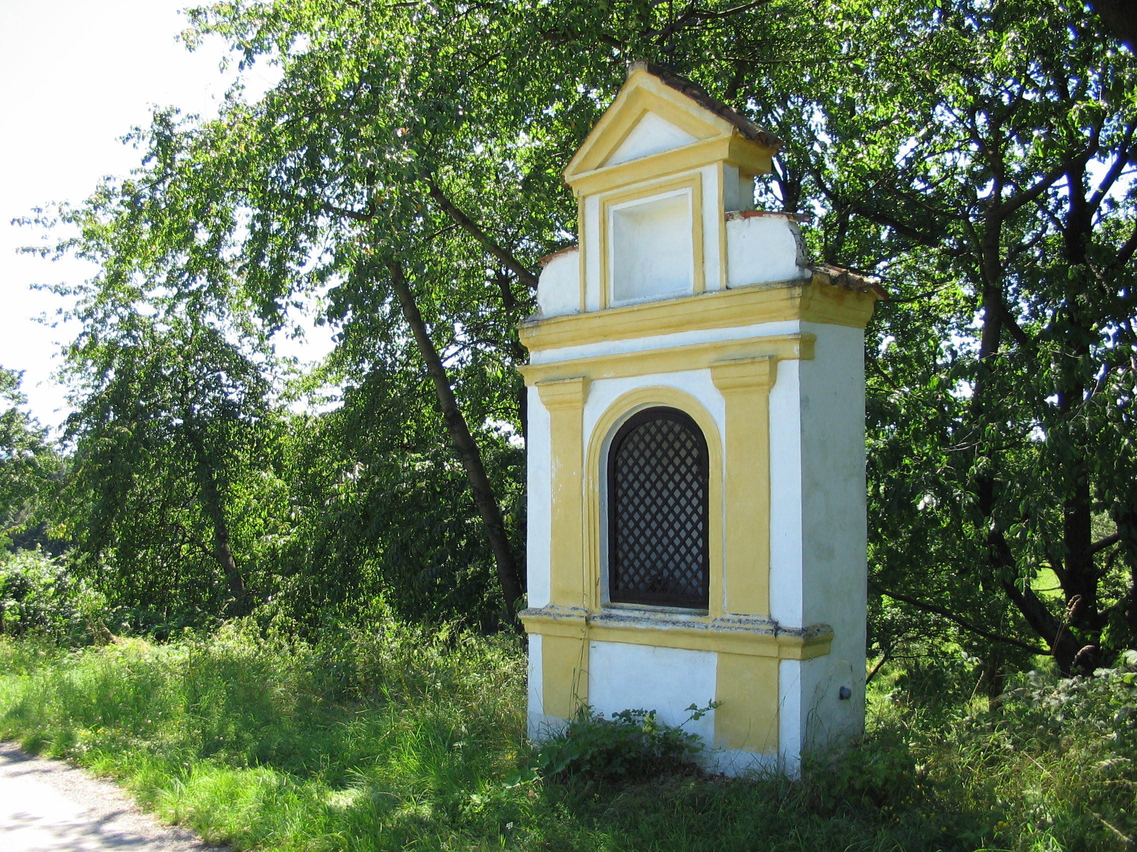 Chapel in Němčice, Strakonice District, Czech Republic